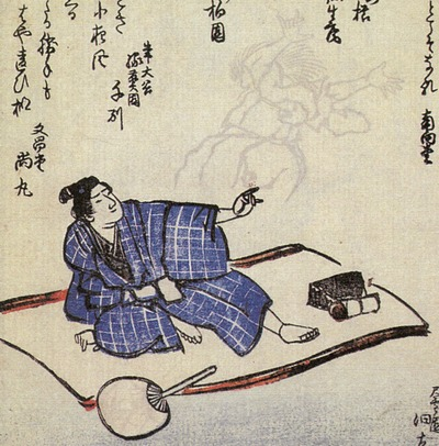 Makura-gaeshi (the pillow-moving spirit) from Kyōka Hyaku Monogatari